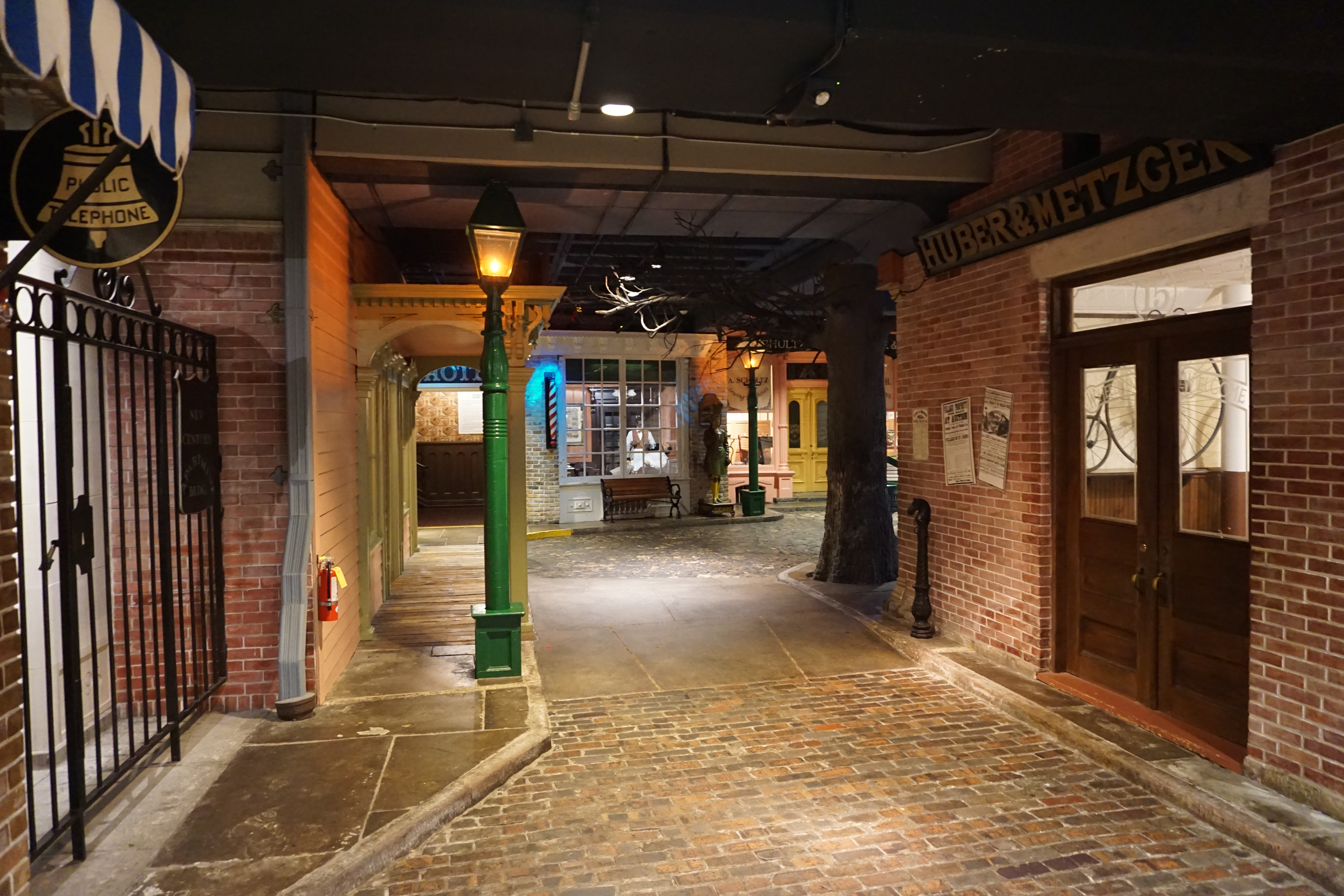 The Streets of Old Detroit: 1900s and 1870s exhibit at the Detroit Historical Museum in Detroit, Michigan (United States).